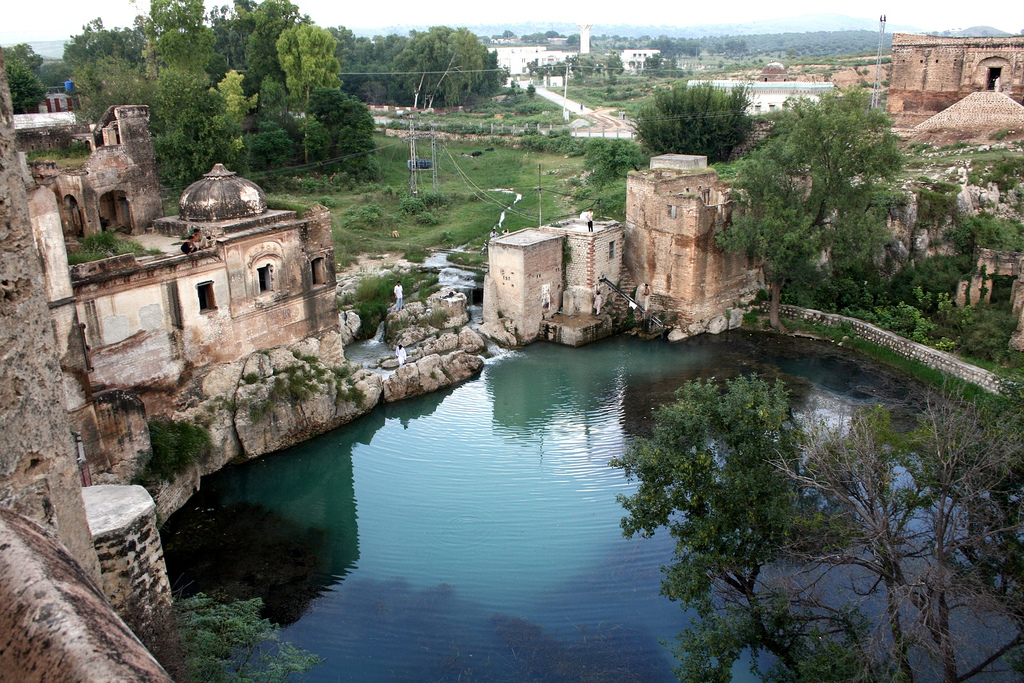 Sacred pool around which the Katas Raj is built. Katas Raj temple is a Hindu temple situated in Katas village in the Chakwal district of Punjab in Pakistan. Dedicated to Shiva.